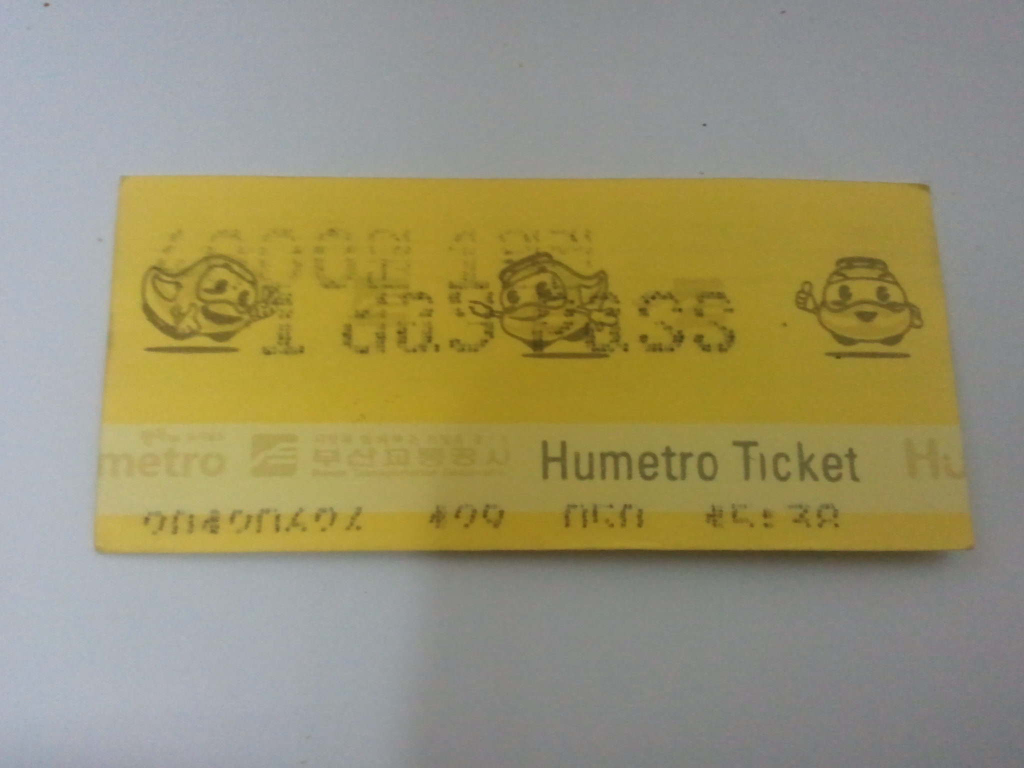 Busan Metro Ticket - 1 day pass